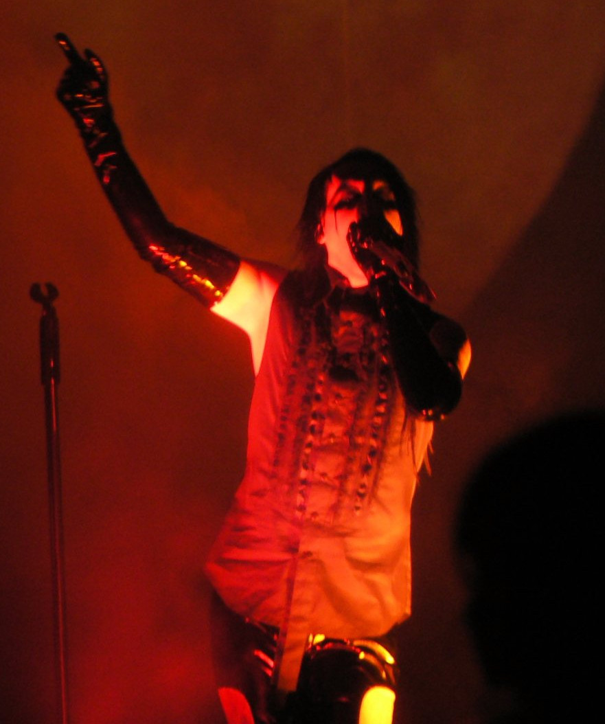 Marilyn Manson performing live at the Southside Festival in 2007